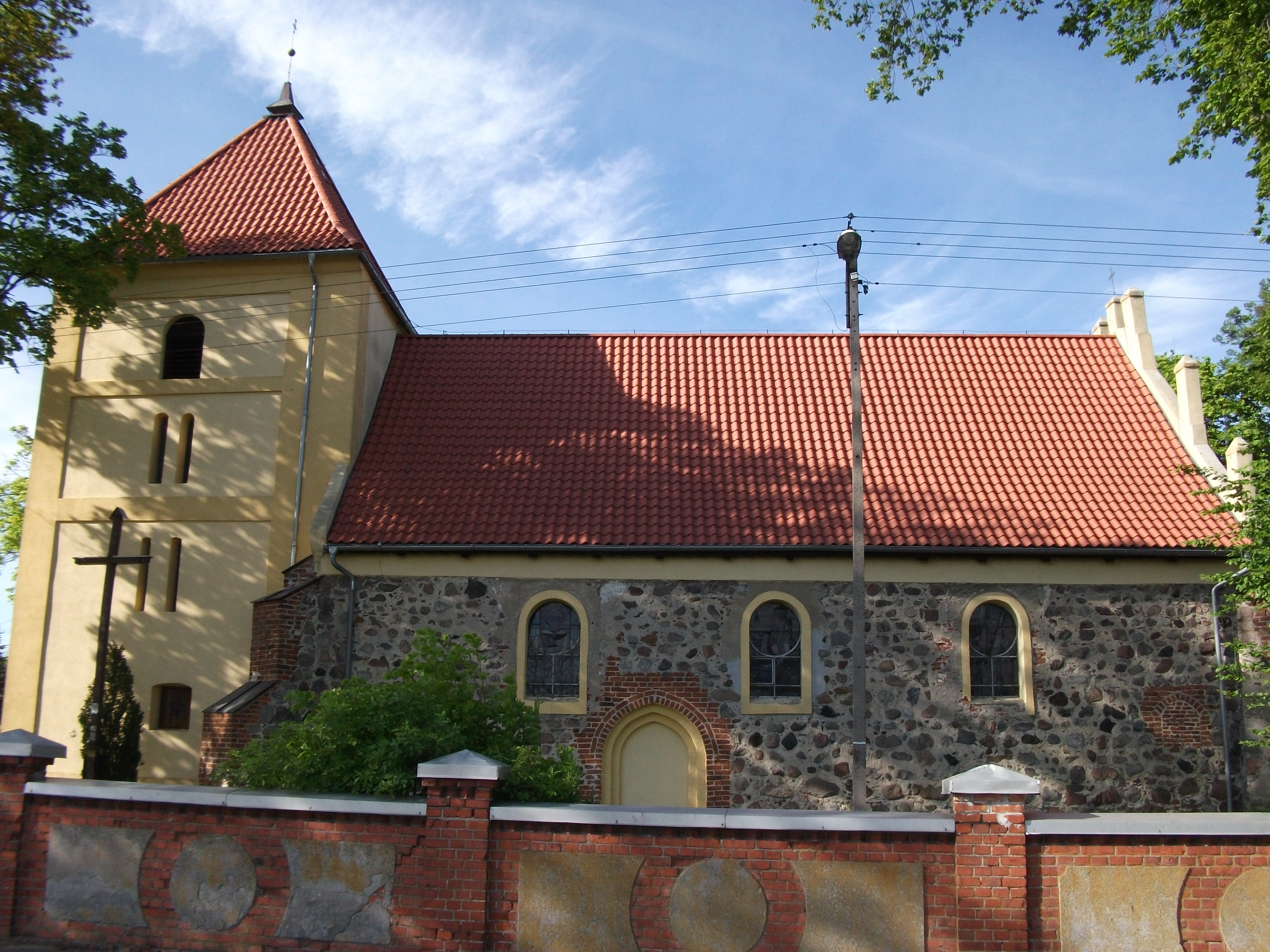 Church in Rogóźno village Poland